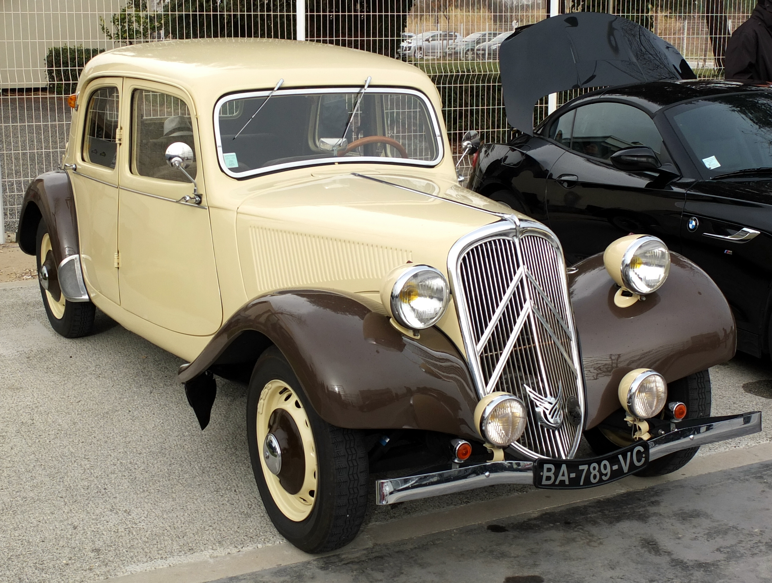 Citroën "Traction Avant" 11 BL (built 1950).Seen at the vintage car and motorbike meeting in Canet-Plage, France.